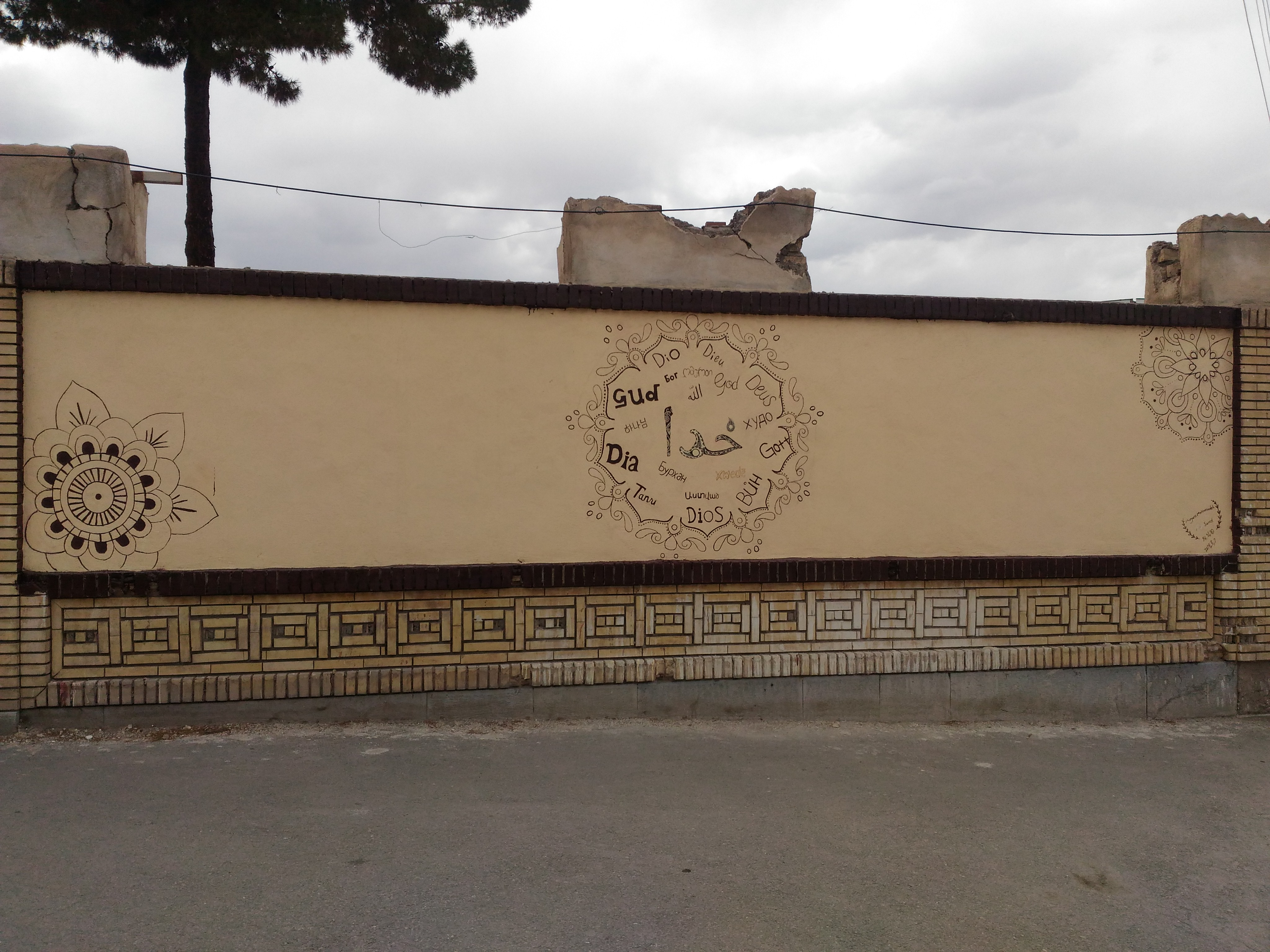 Graffiti in kerman